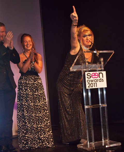 Aunty Marlene wins "Drag Queen of the year" at Liverpool's inaugural Seen Awards, Thursday October 13th 2011.